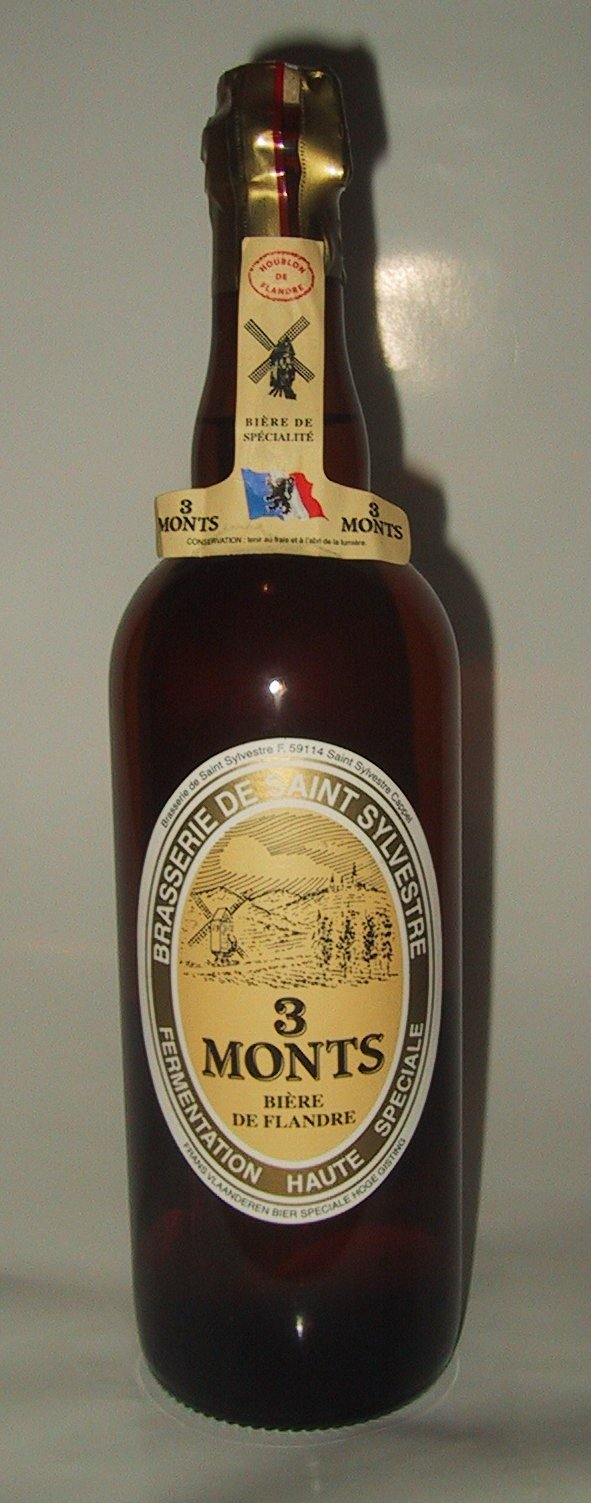 3 monts beer (France)